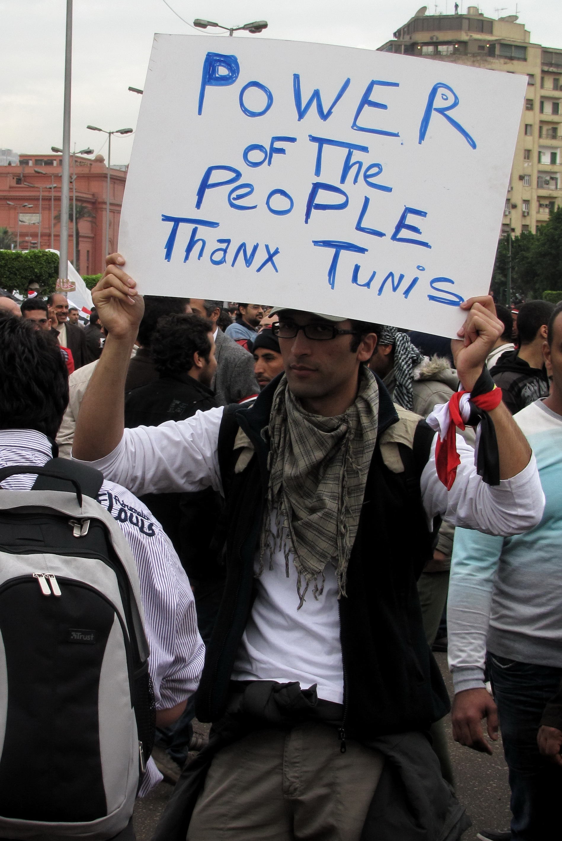 An Egyptian protester acknowledges the influence of the Tunisian revolution on Egypt's own.